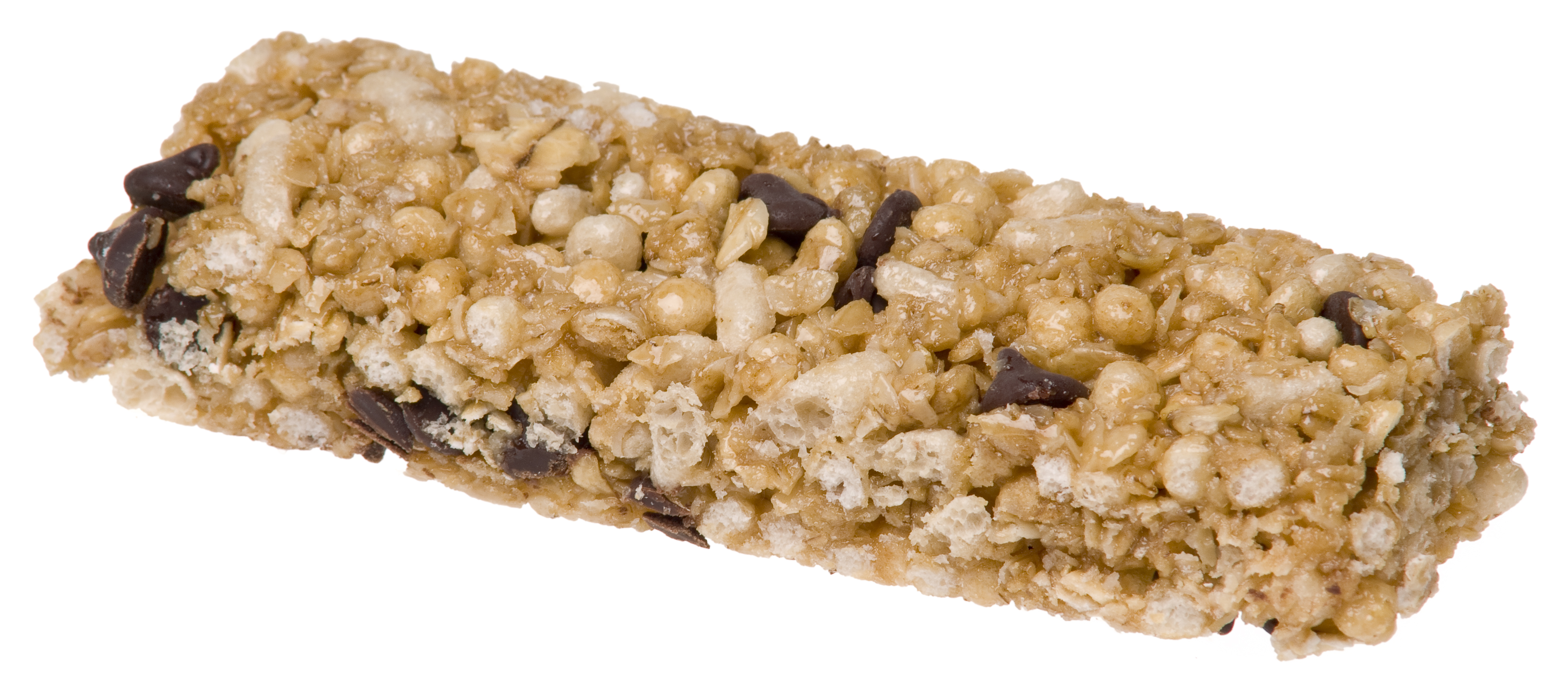 A chocolate chip granola bar made by Quaker Oats.